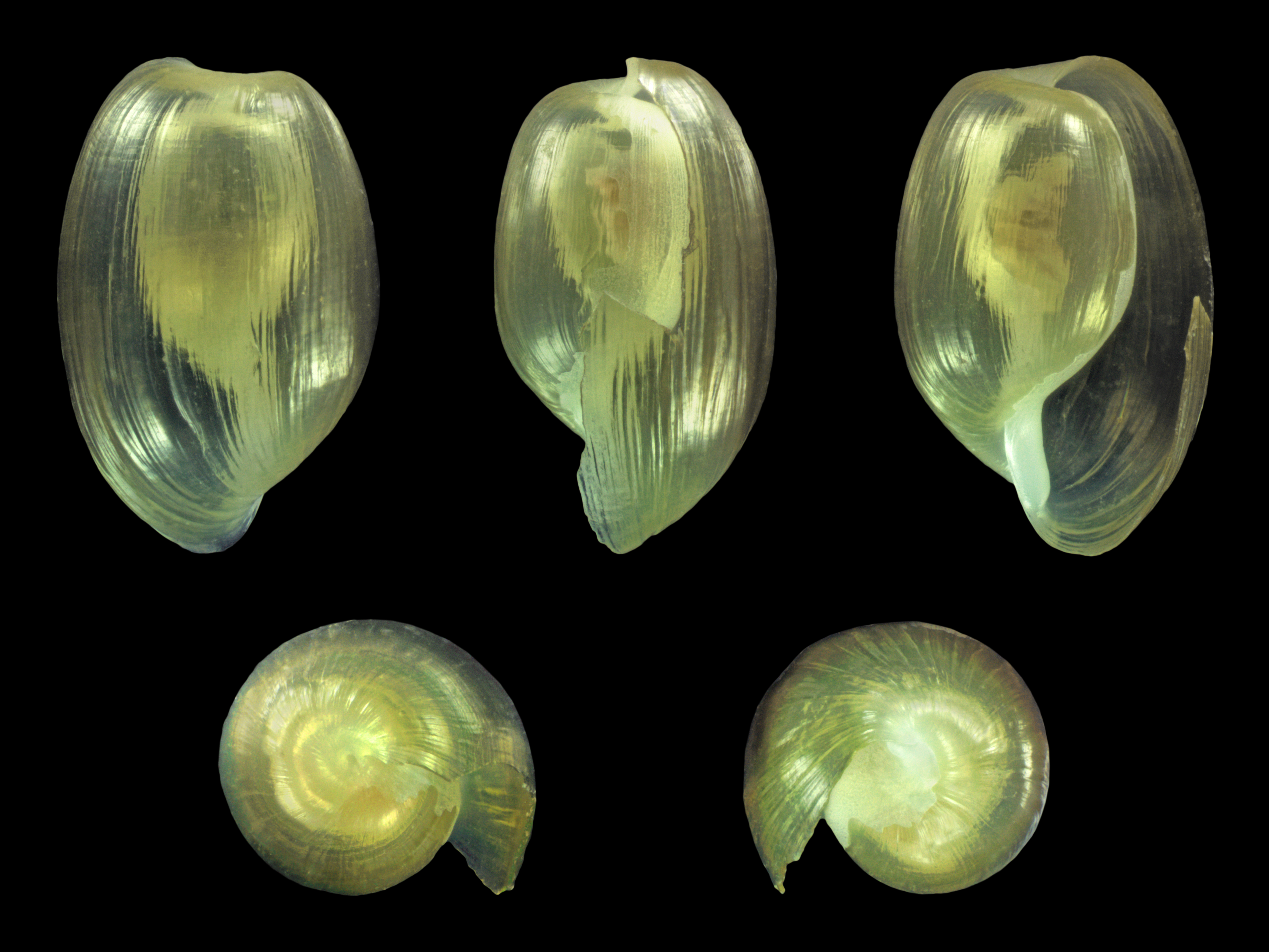 Haminoea hydatis cymoelia Monterosato, 1923; length 0.30 cm; Originating from Mallorca, Spain; Shell of own collection, therefore not geocoded.